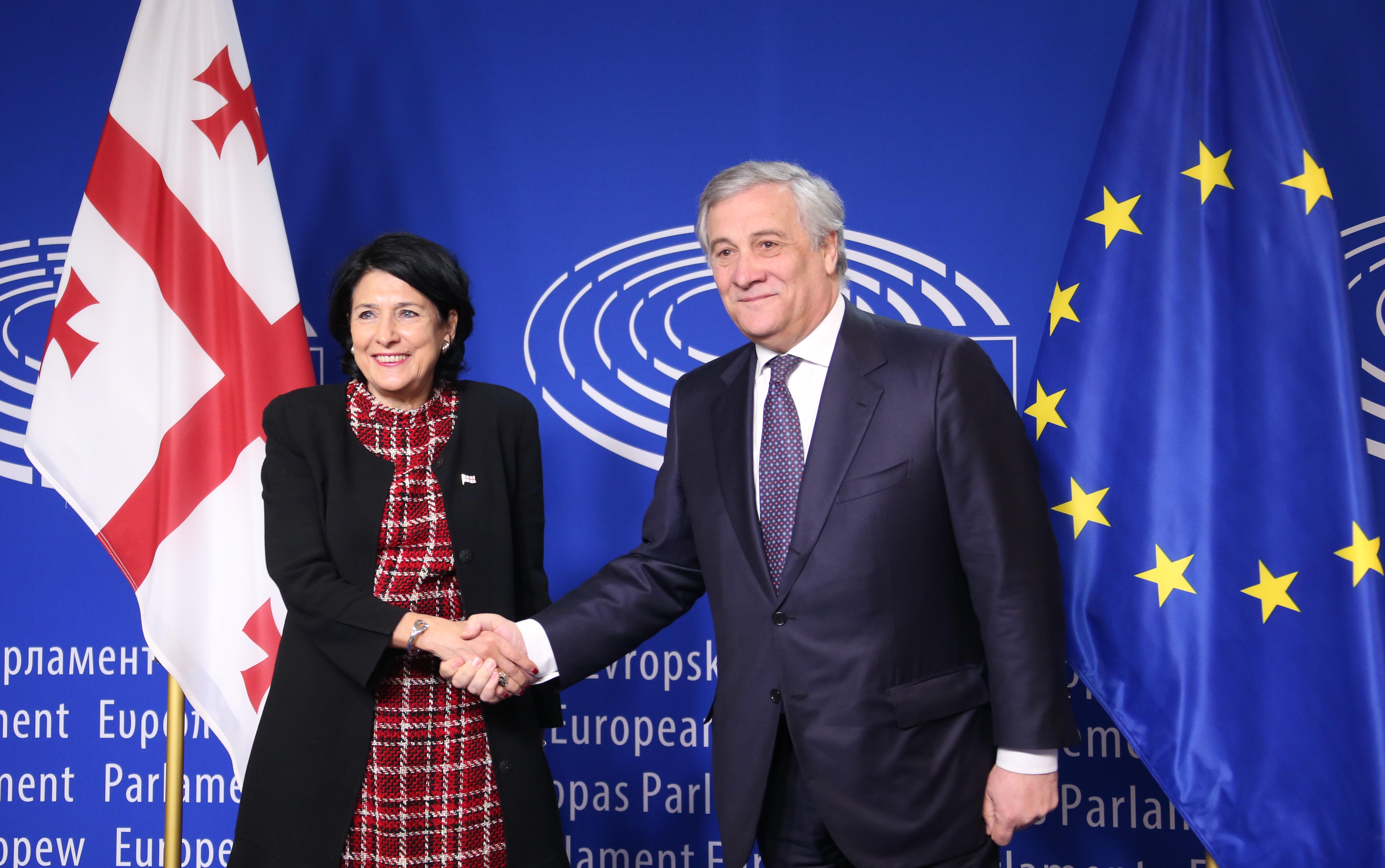 Georgian President Salome Zourabichvili and European Parliament President Antonio Tajani shaking hands in Brussels in January 2019.